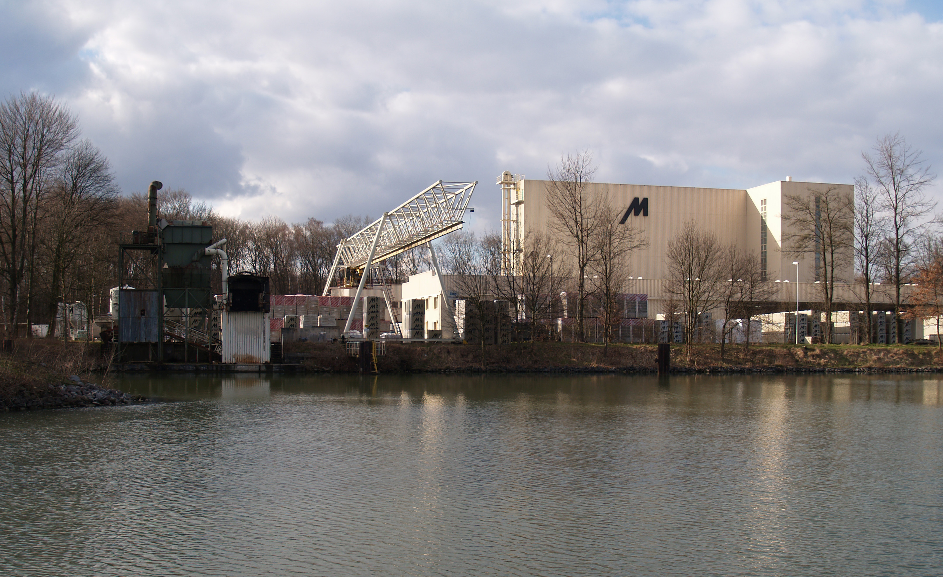 Port Marmorit at Rhein-Herne-Kanal